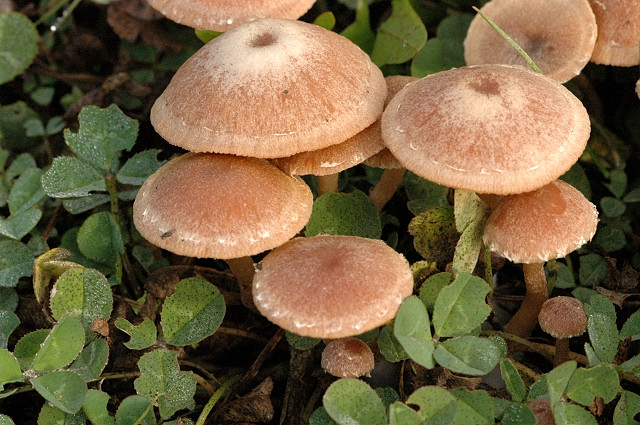 Tubaria conspersa from Commanster, Belgium. The determination of the species shown in this picture has been verified.